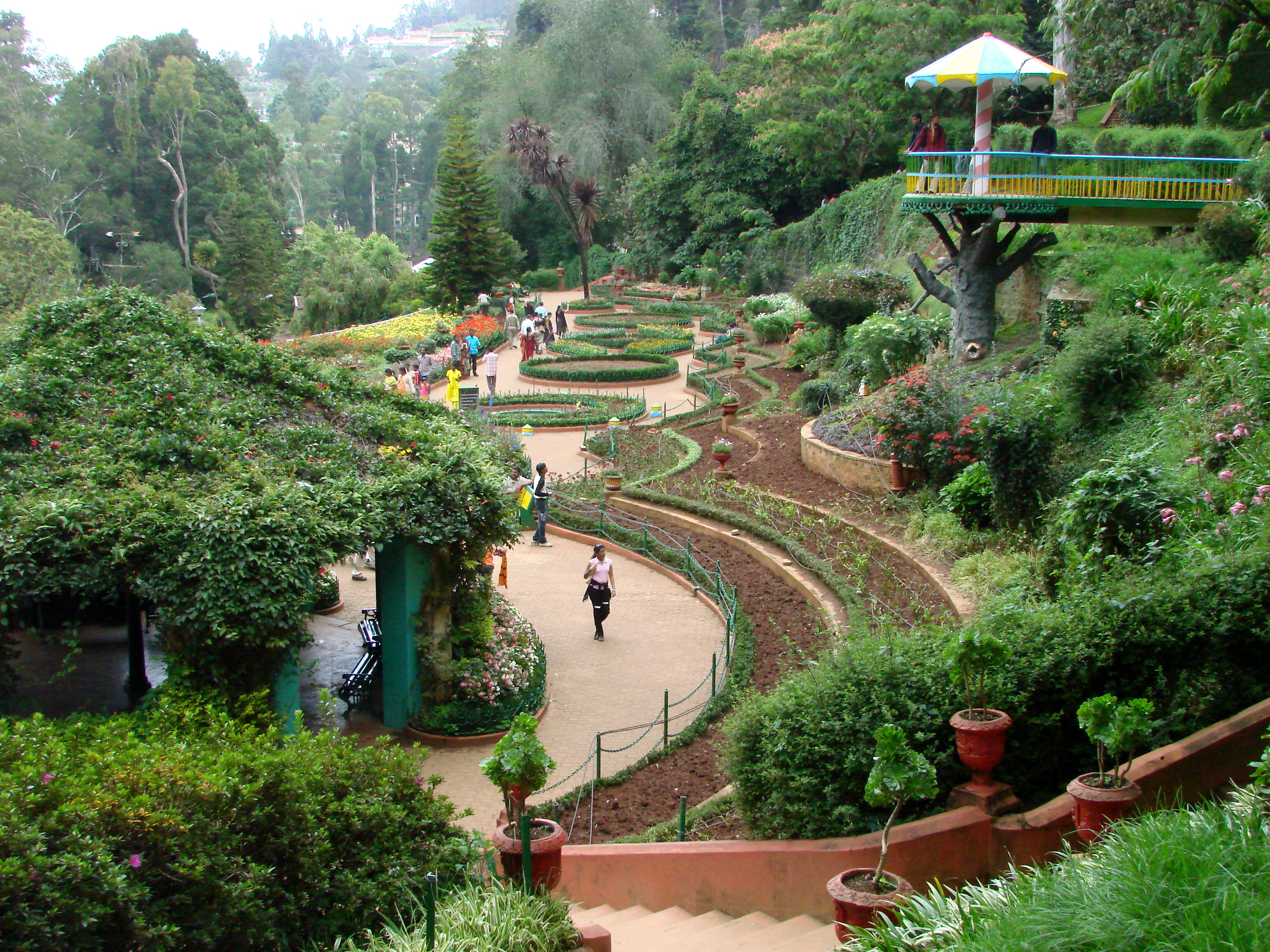 Botanical Gardens at Ootacamund (Ooty), India. June 2008.